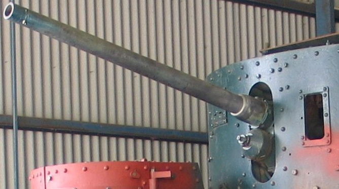 Closeup of QF 3 pounder gun, mounted on Vickers Medium Mk II special tank, at Royal Australian Armoured Corps Tank Museum, Puckapunyal, Victoria, Australia. This is a clip from the fulkl image at File:Puckapunyal-Vickers-Medium-MkII-1.jpg